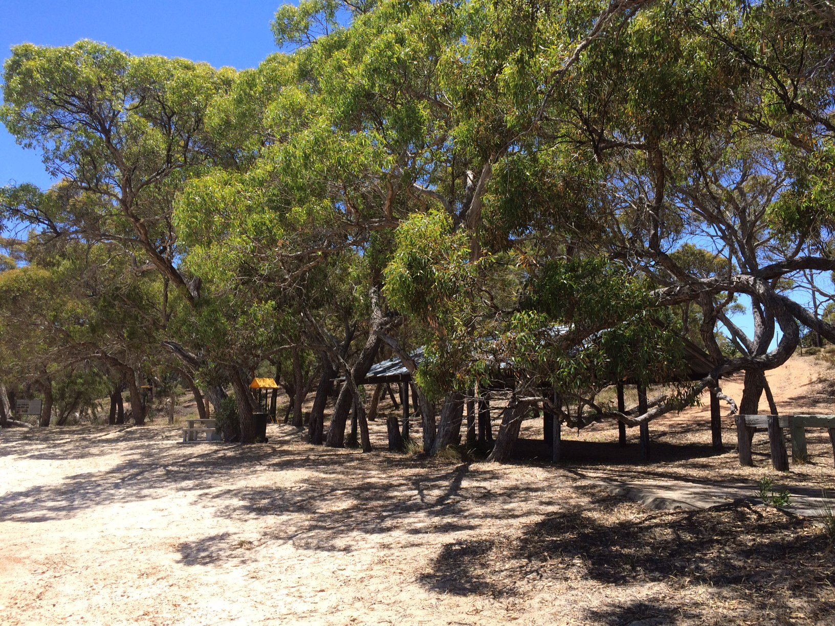 Lake Poorrarecup fringe vegetation